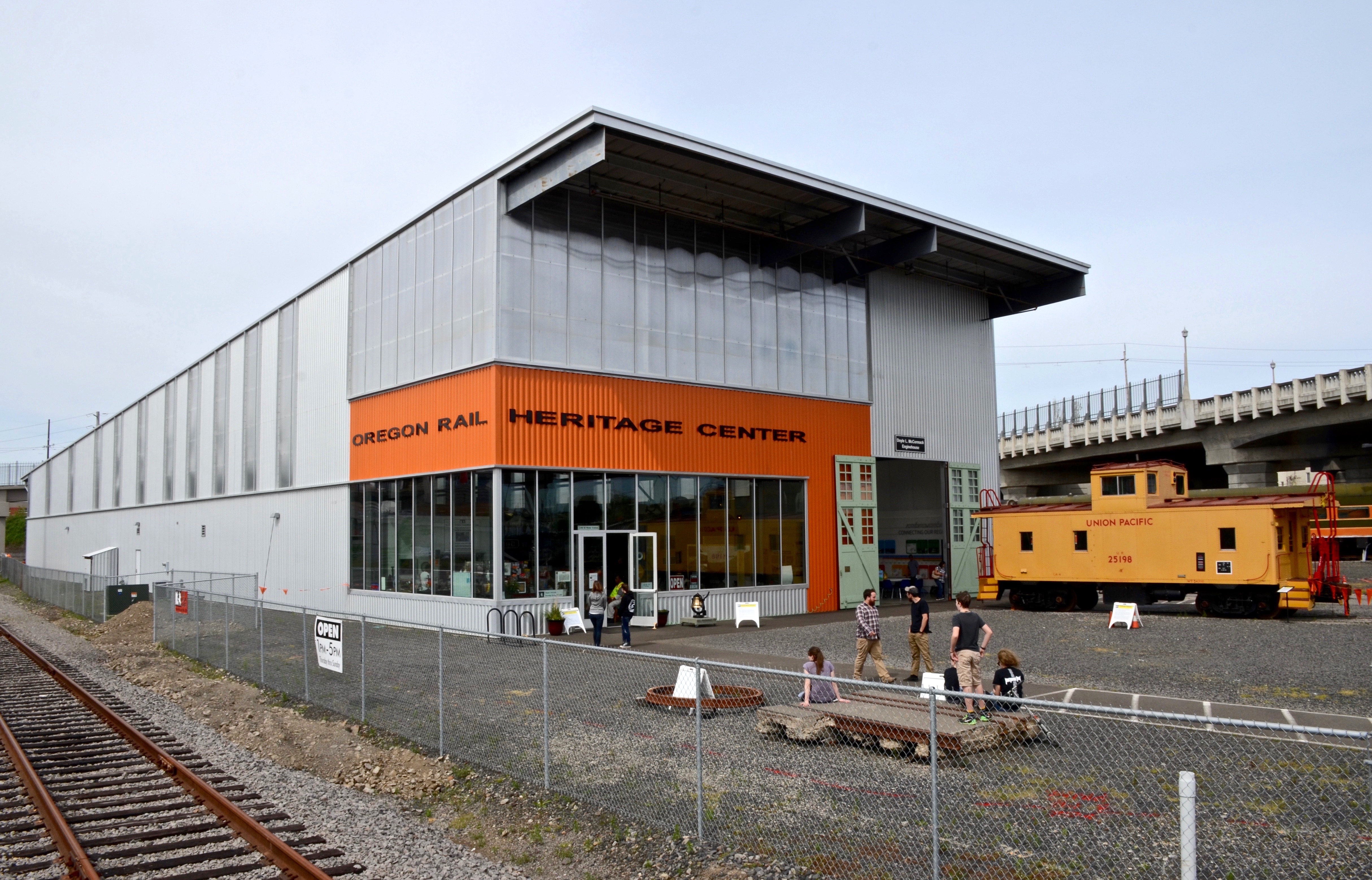 The Oregon Rail Heritage Center, in Portland, Oregon, with an ex-Union Pacific caboose parked out in front.